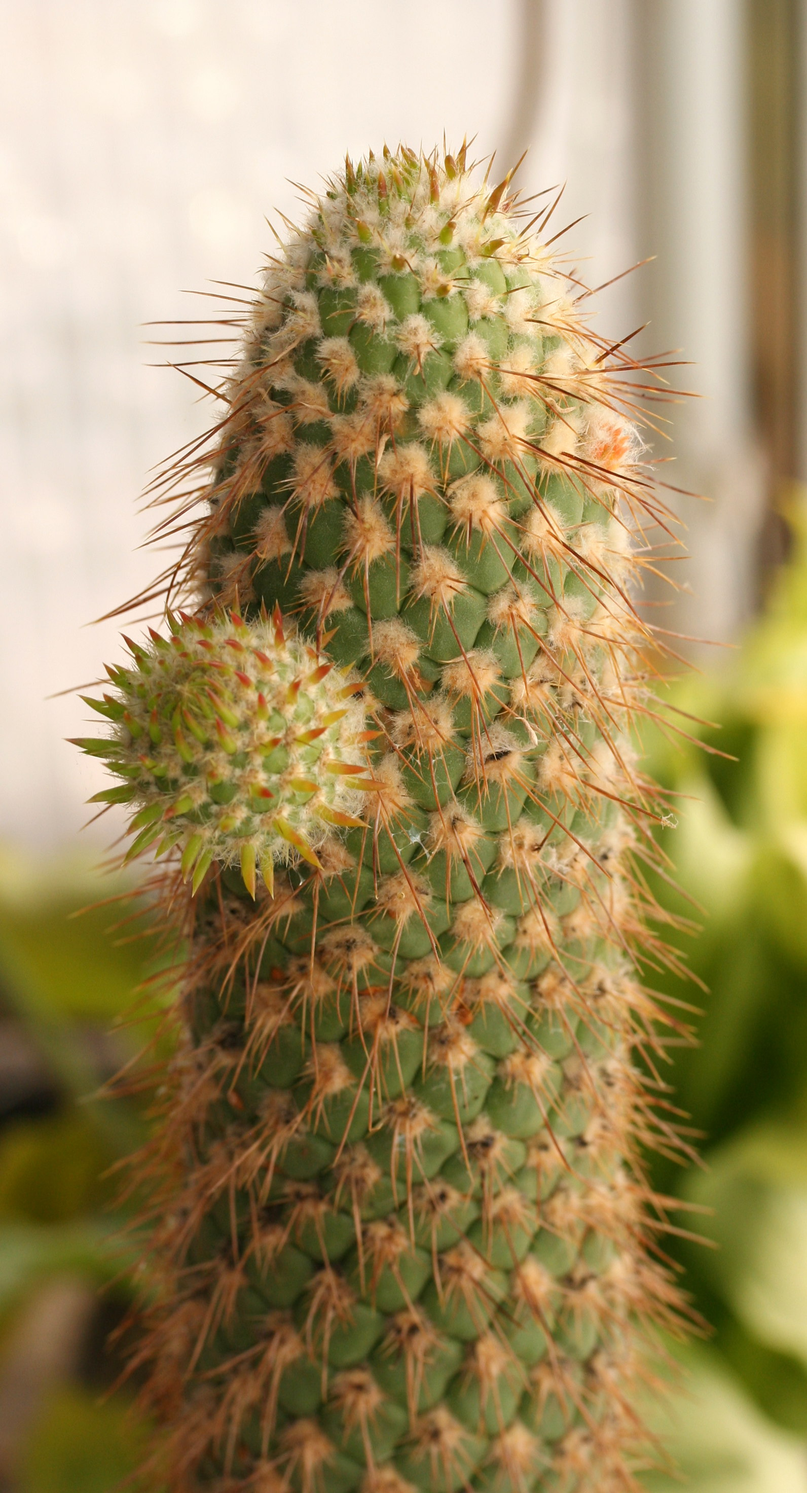 Austrocylindropuntia pachypus